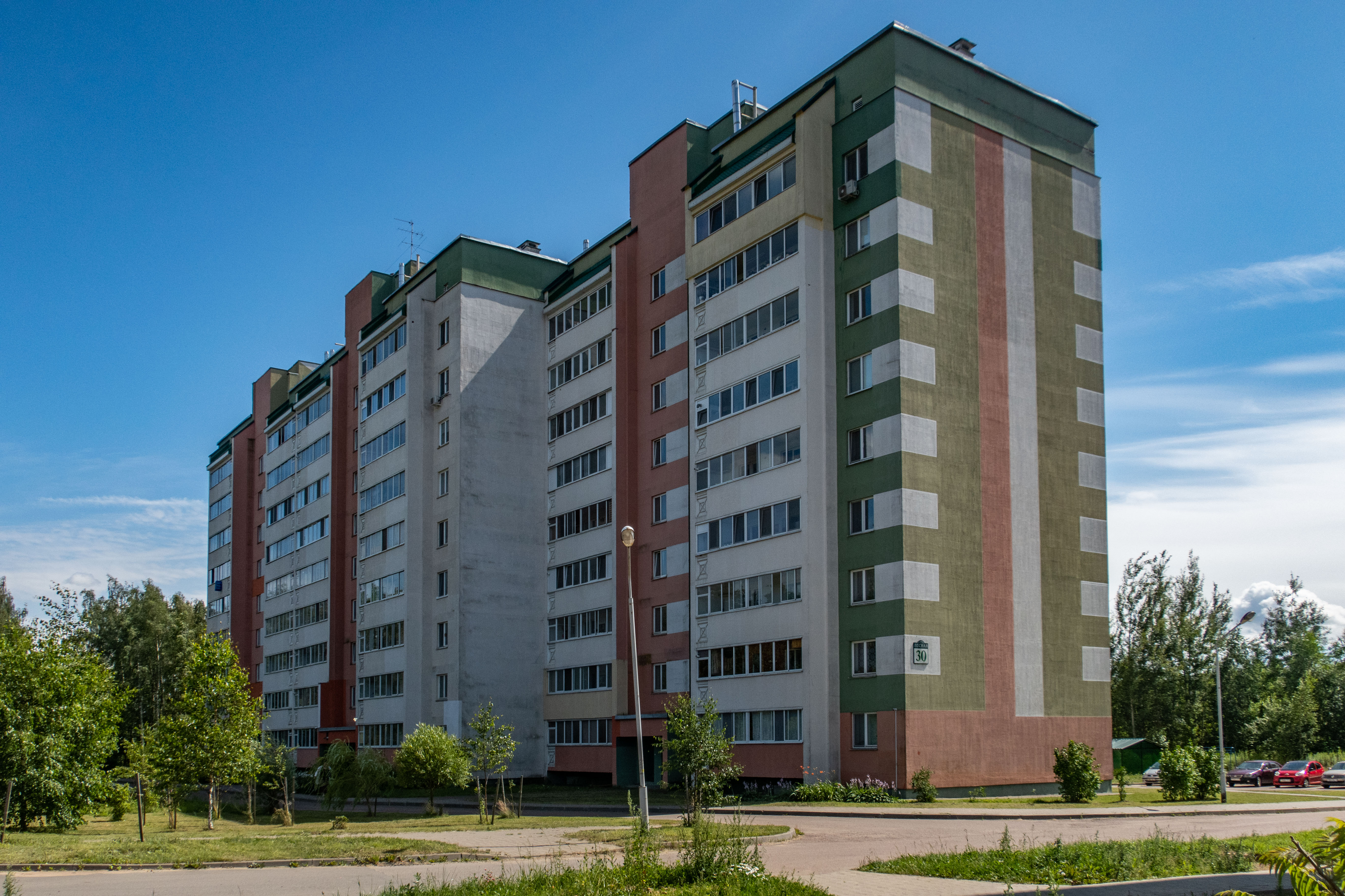 Mačuliščy (Machulishchi). Minsk district, Belarus